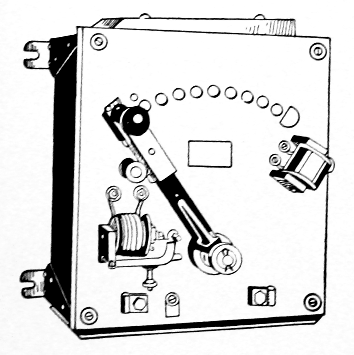 TBD Public Domain source: Hawkins Electrical Guide, Volume 2 Chapter 35: Operation of Motors, Page 669 Copyright 1917 by Theo. Audel & Co. Printed in the United States Photographed, reduced to grayscale, and saved as a PNG by Dale Mahalko, Gilman, WI